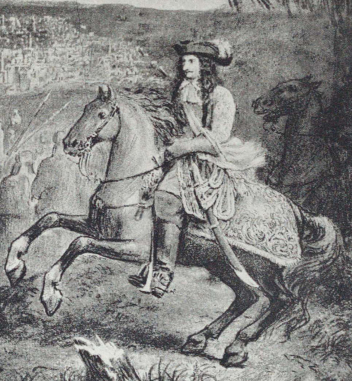 Painting by Arnould de Vuez, in 1674, of ambassador Charles Marie François Olier, marquis de Nointel entering Jerusalem. Published by Albert Vandal in 1900